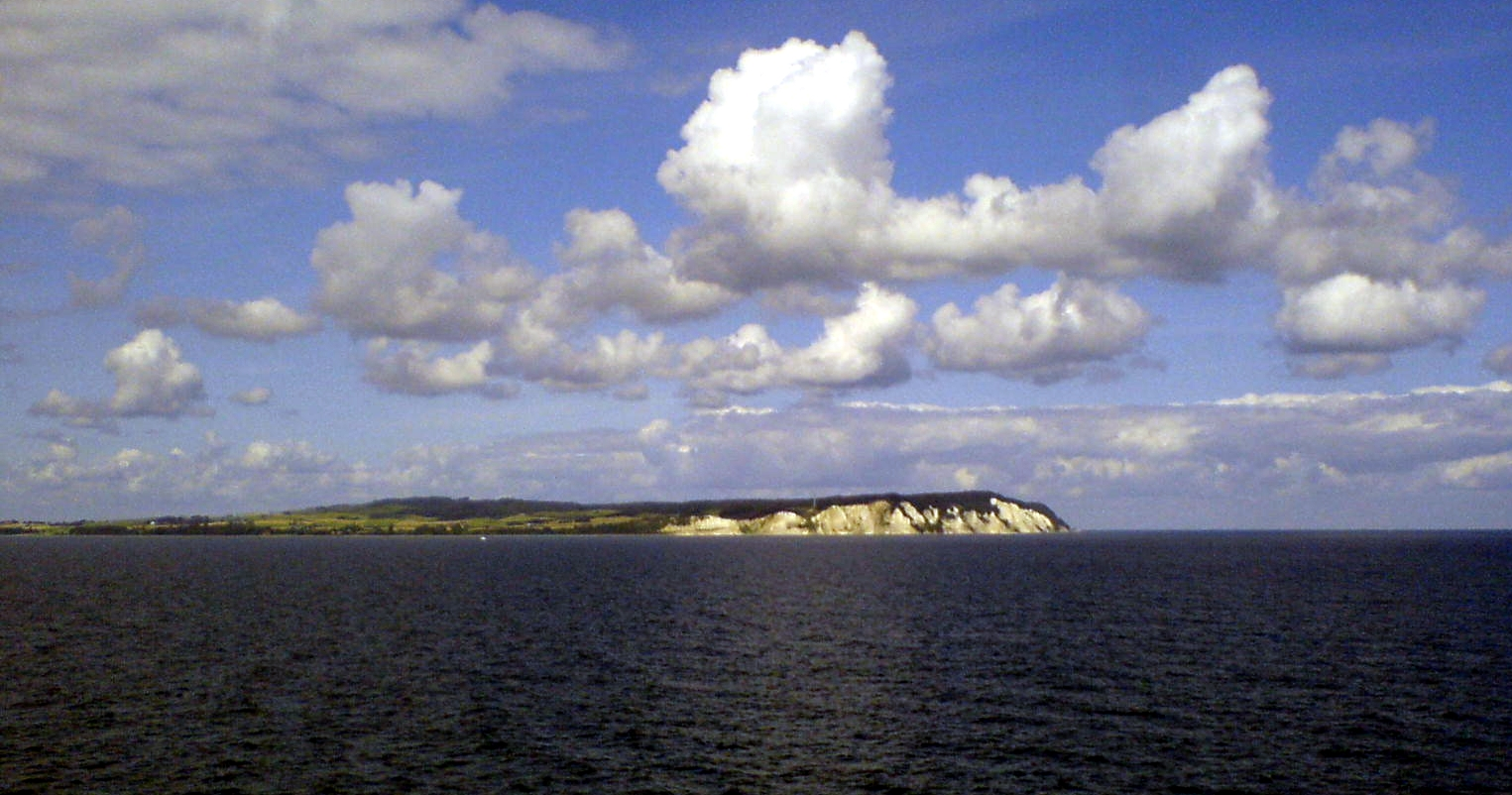 Description=Møn_vom_Meer Source=myself Date=08.2007 Author=PodracerHH 20:20, 28 November 2007 (UTC)